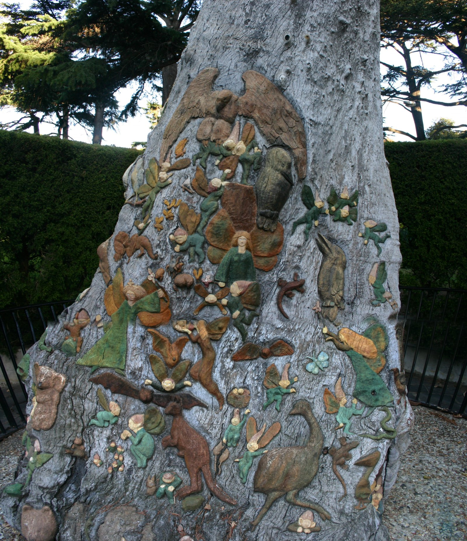 The Fairies tree in the Fitzroy Gardens, Melbourne. Sculptored by Ola Cohn 1931-1934. Photo by Takver, April 2005, and released under GNU FDL.